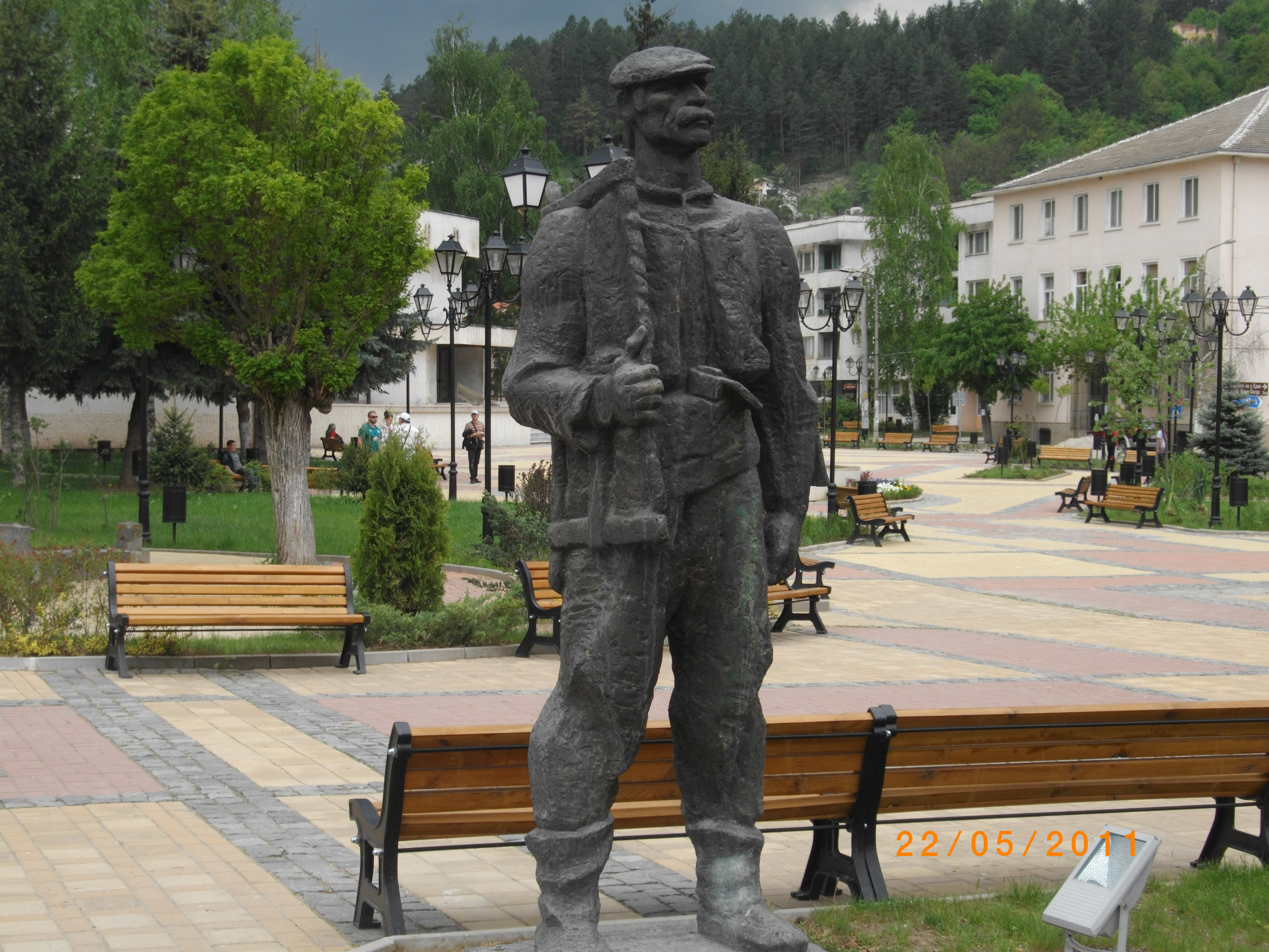 Monument to the builder from Tran